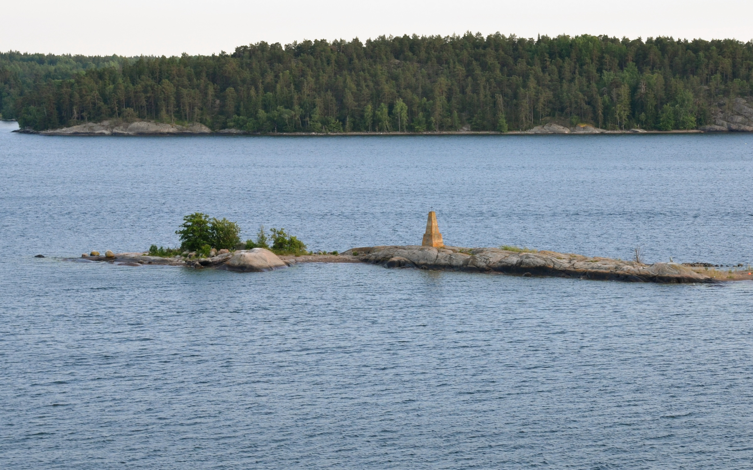 The isle Mansören in Stockholm archipelago with John Carlssons' mausoleum.